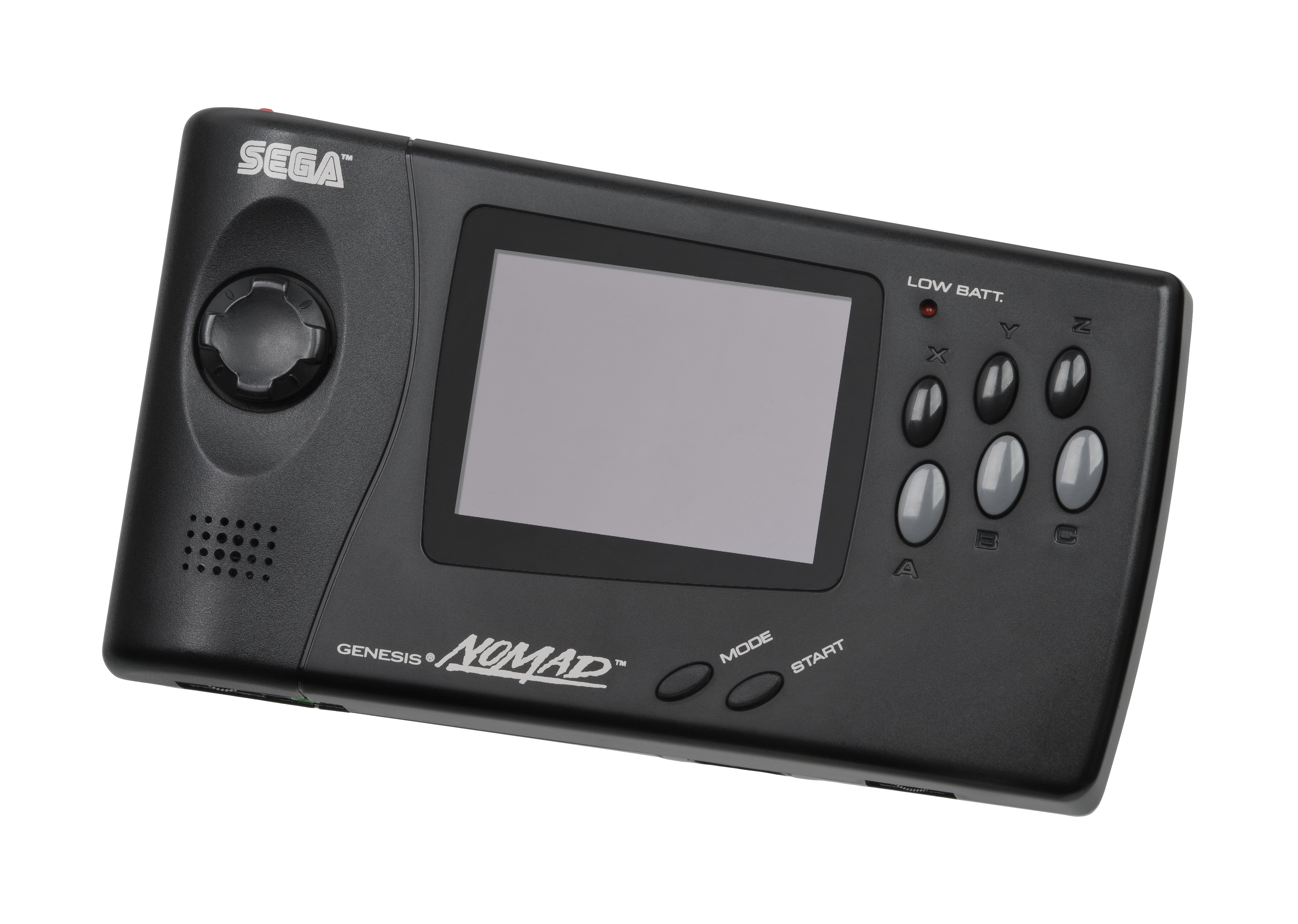 The Sega Nomad, a portable version of the Sega Genesis video game console that was released in exclusively in North America in 1995.